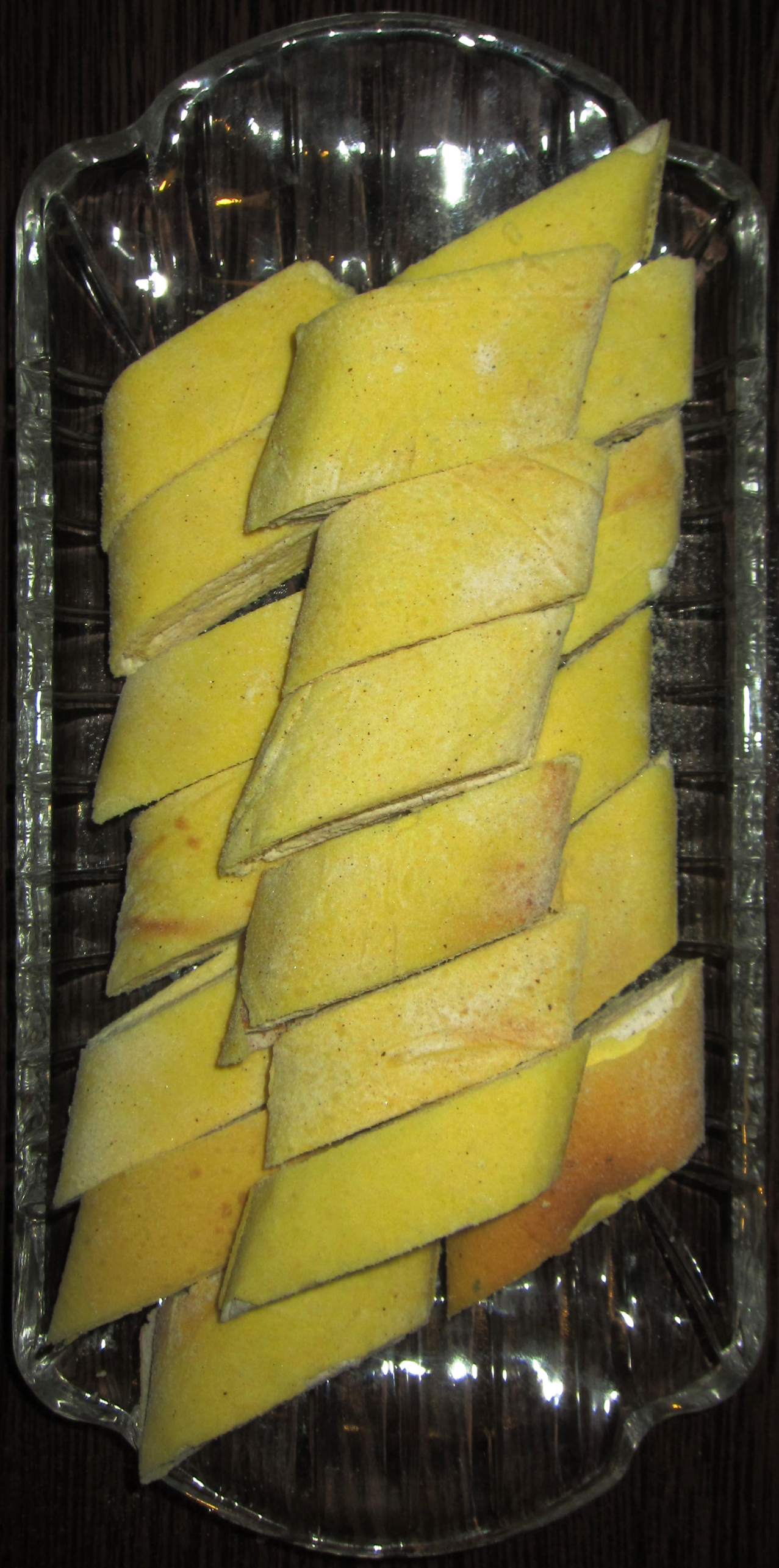 Kak, Iranian pastry and a souvenir of Shiraz